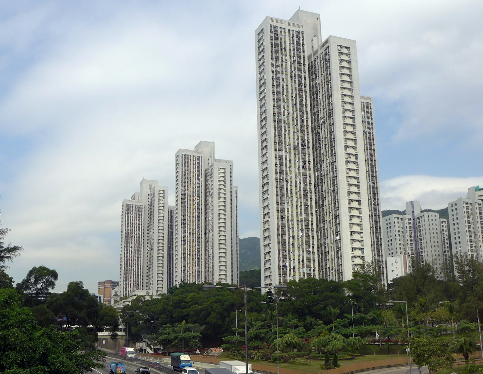 Tin Ma Court